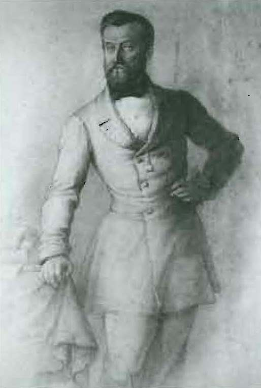 Jakob Friedrich Sprandel (1828-1895), surgeon, obstetrician and owner of a private maternity hospital